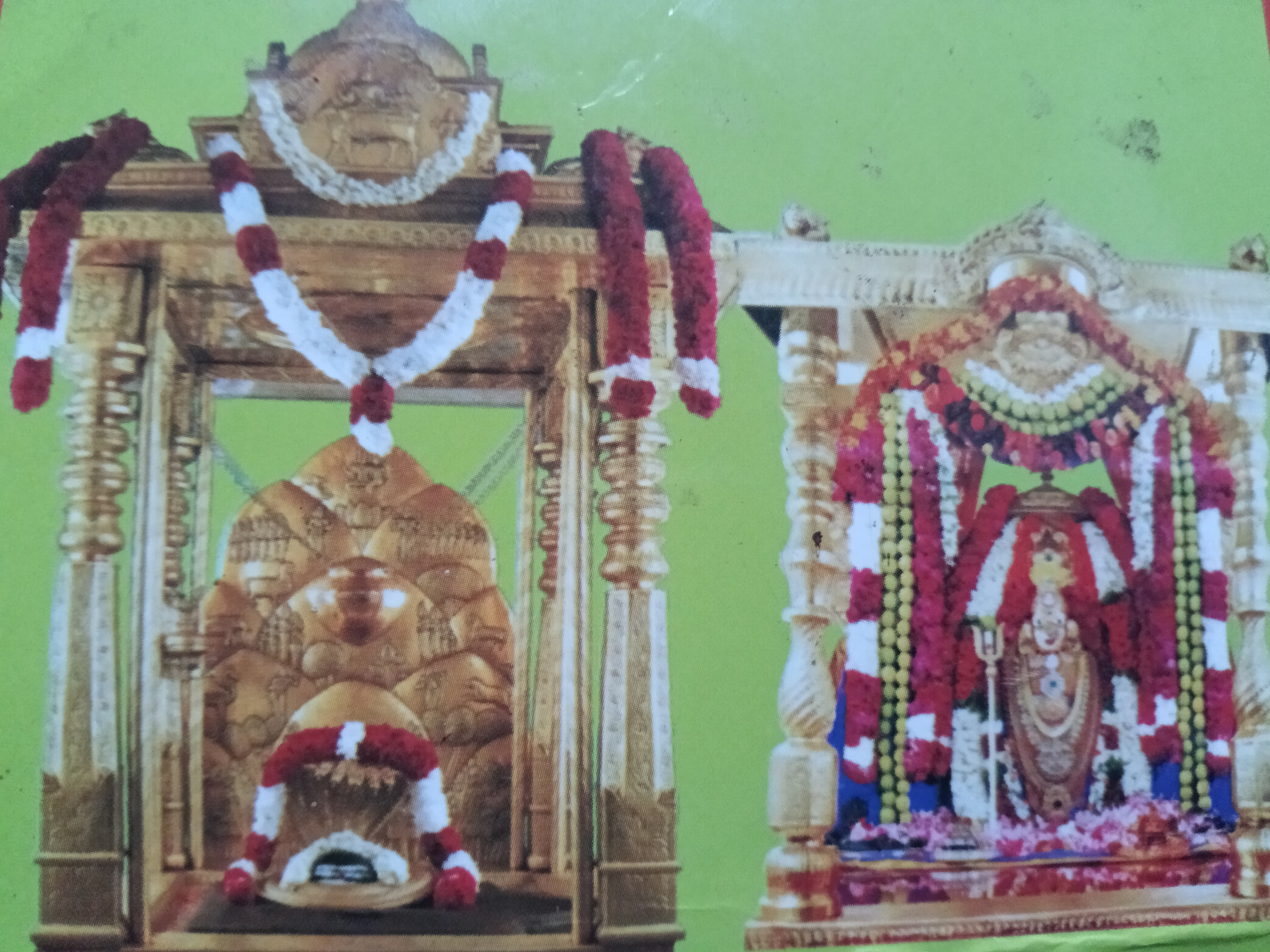 Sri Mallikarjuna Swami and Sri Bhramaramba Devi